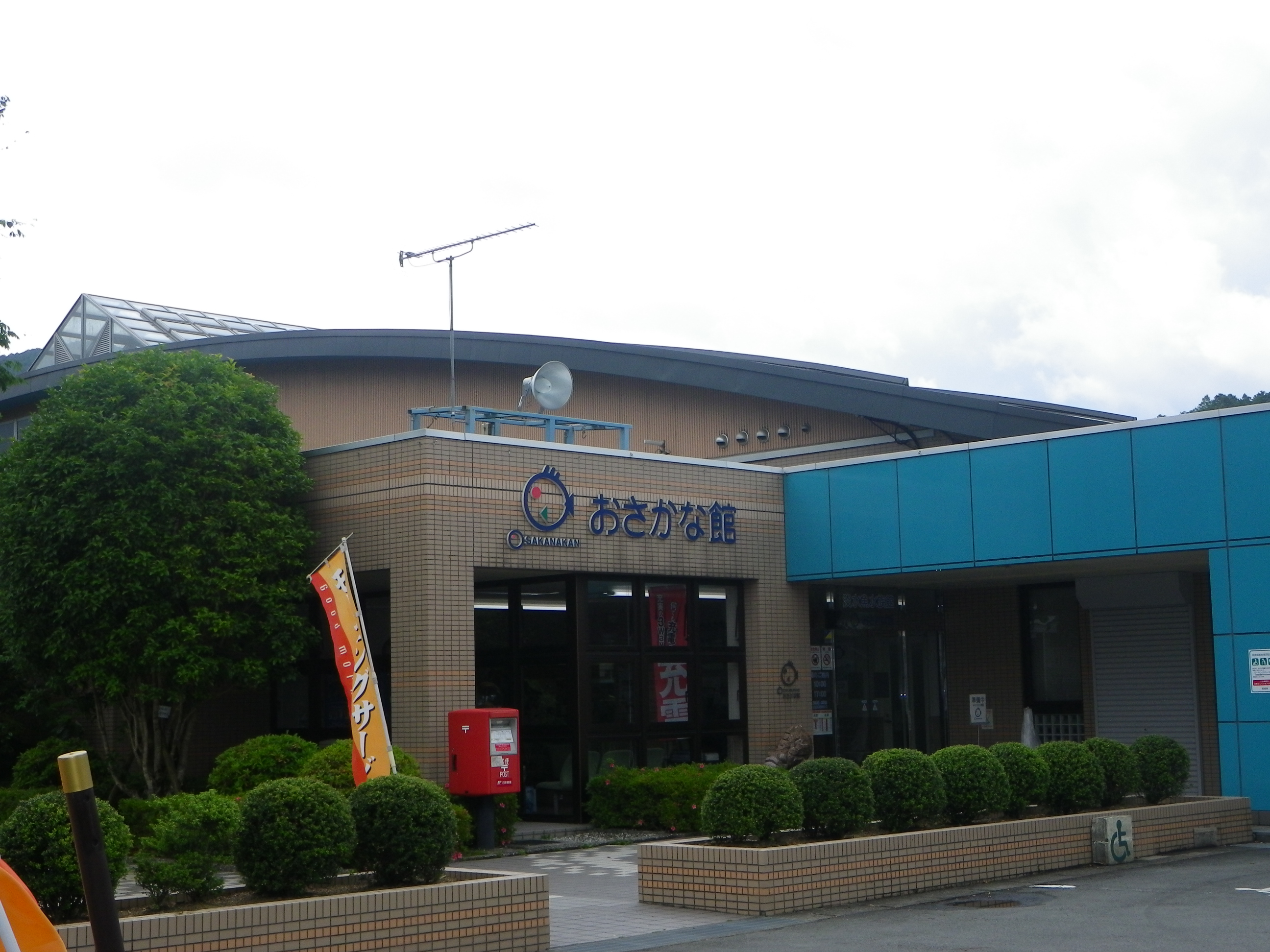 Shimanto Osakanakan aquarium